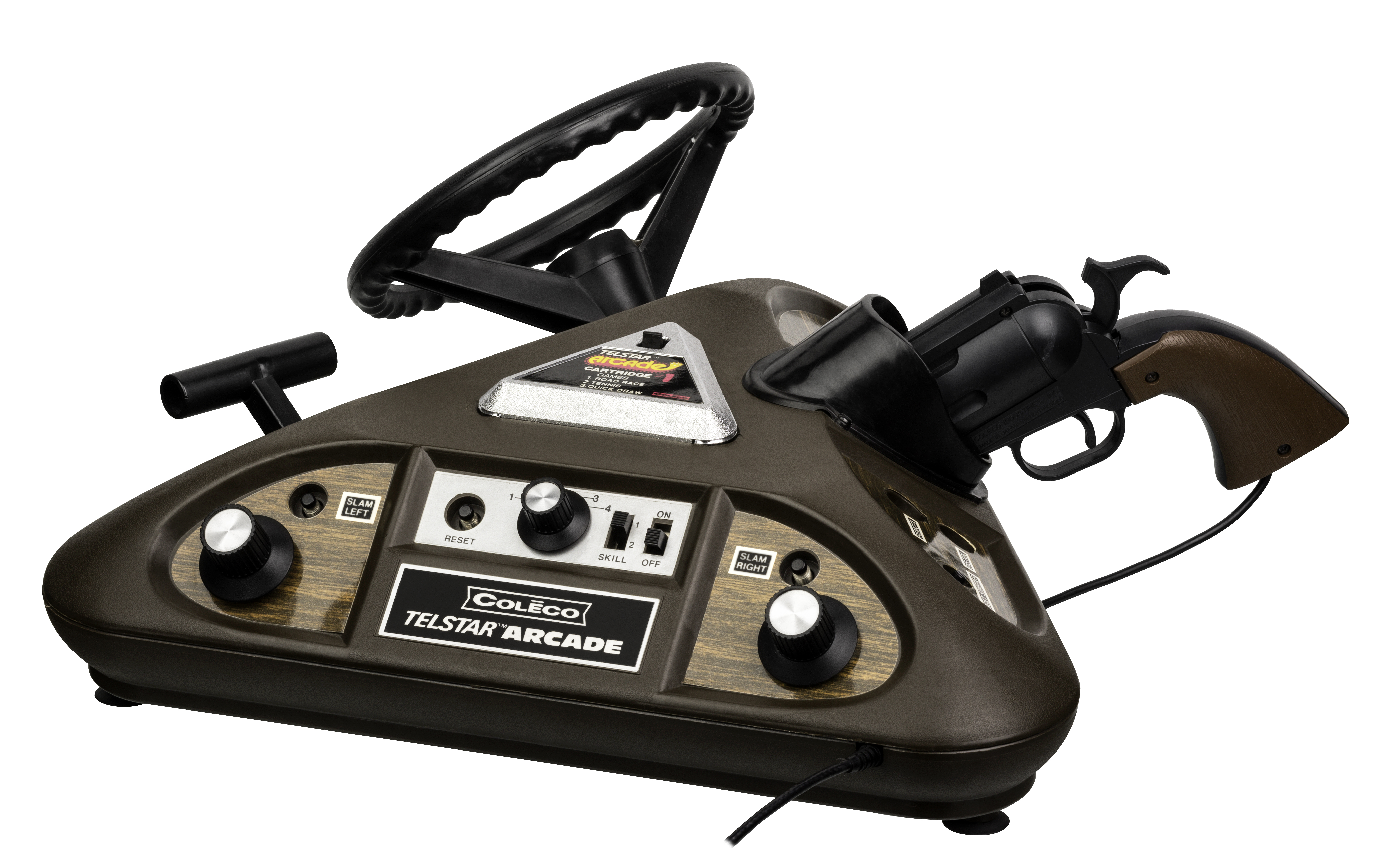 The Coleco Telstar Arcade, a unique pong console variant that used cartridges with simple chips for various Pong-style games. Also, the console offered three modes of play, with paddles, a steering wheel and a light gun.